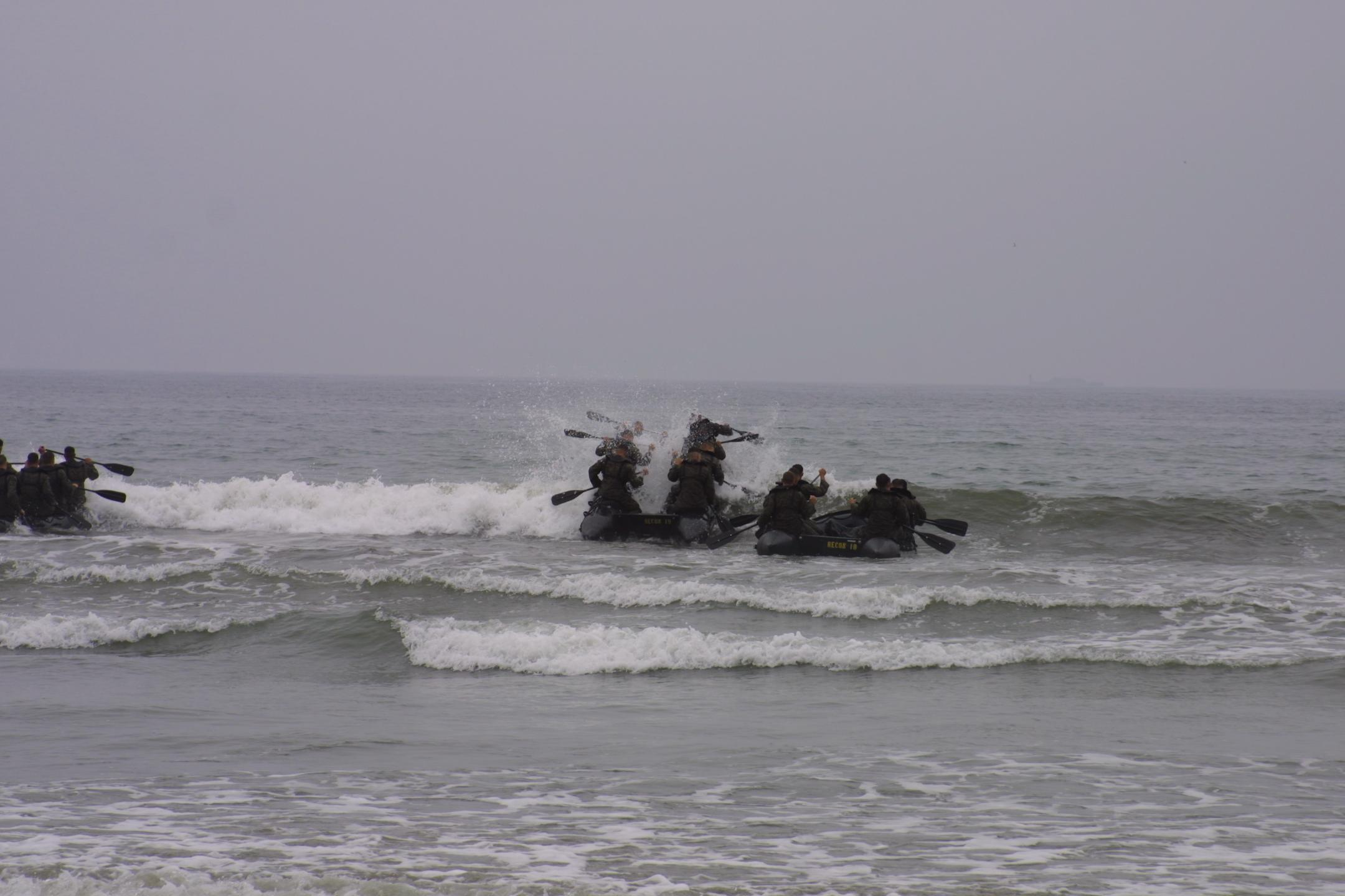 Platoon of force recon operators train in rubber coxswain skills.